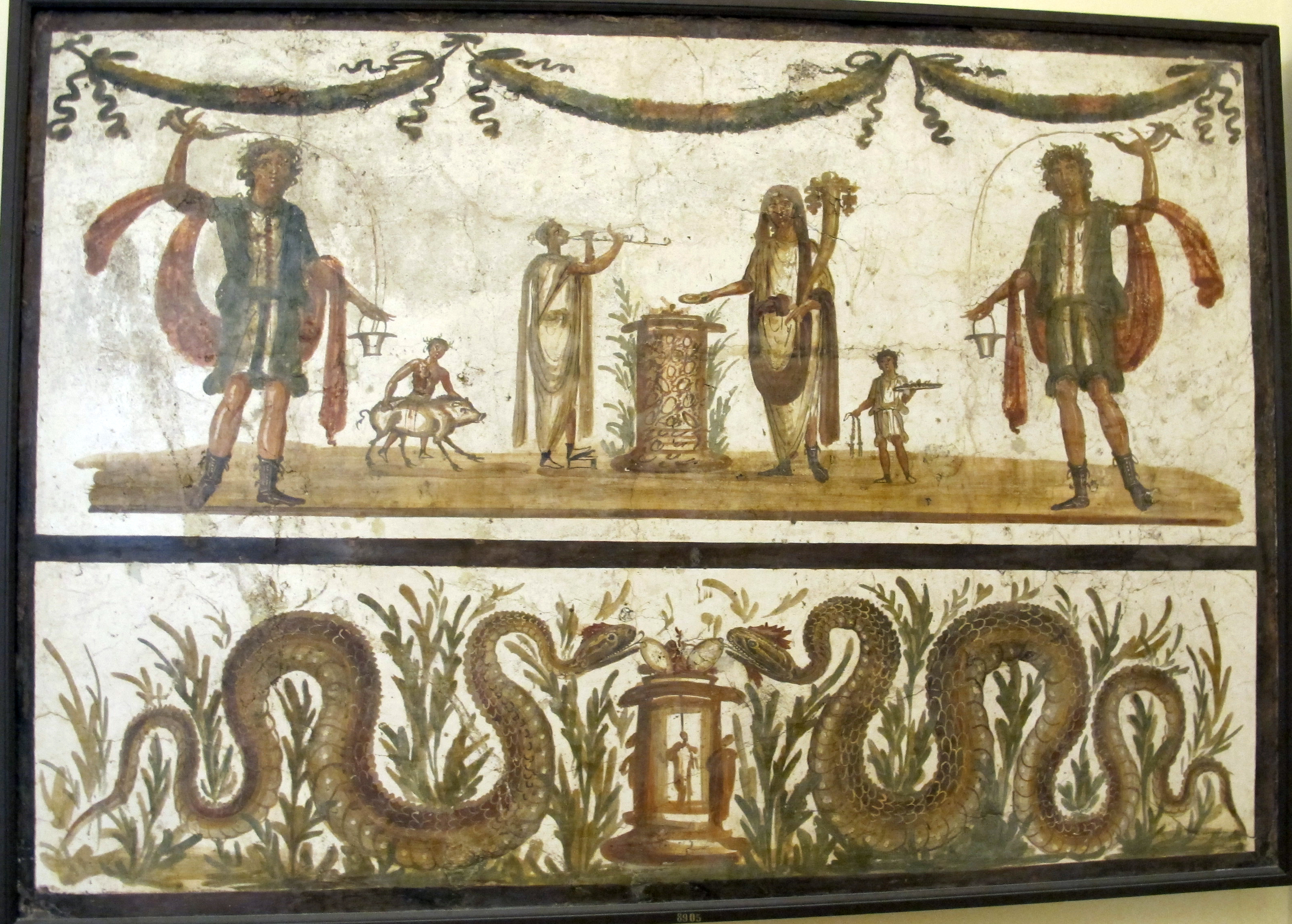 Ancient Roman frescos in the Museo Archeologico (Naples)